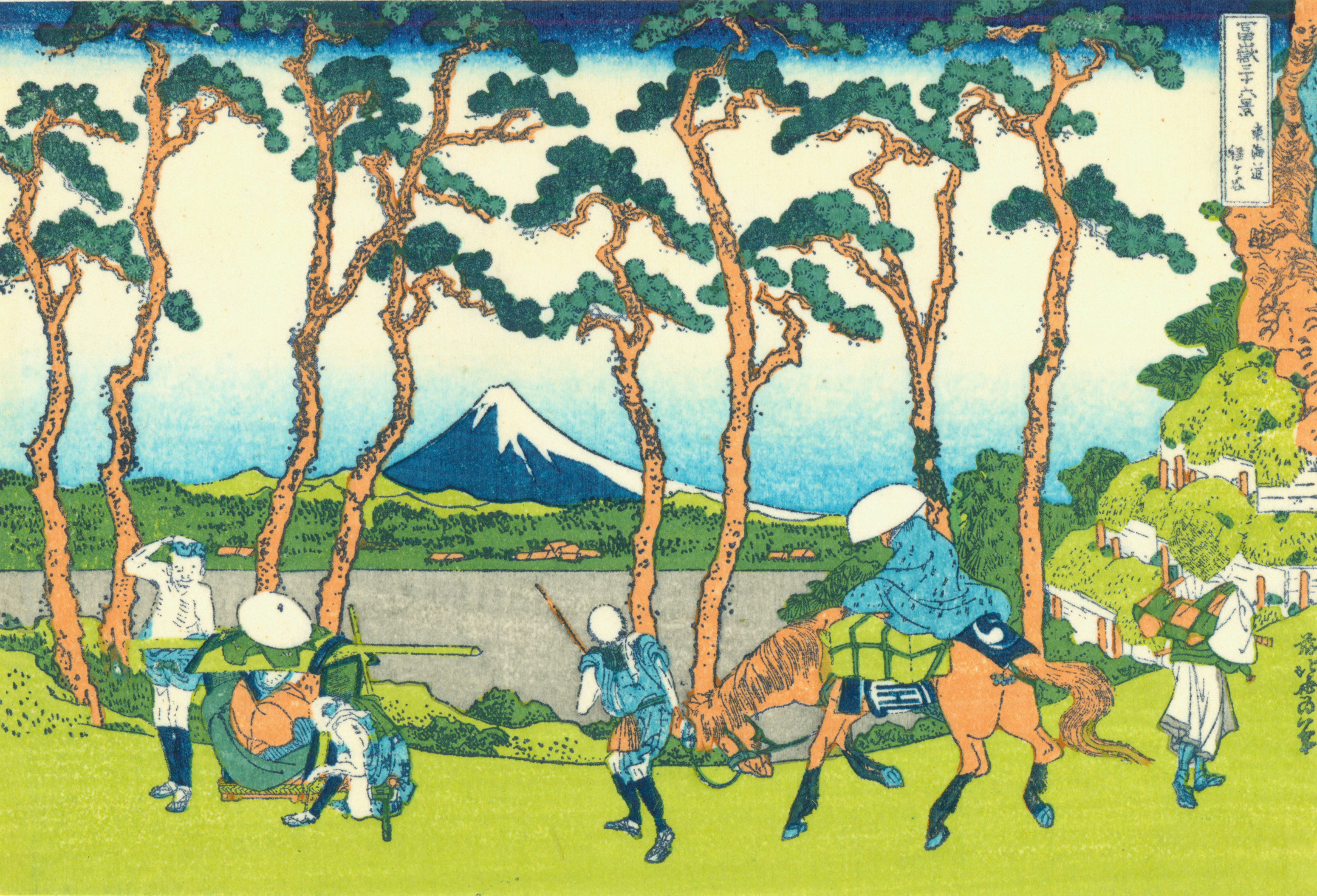 Part of the series Thirty-six Views of Mount Fuji, no. 23.